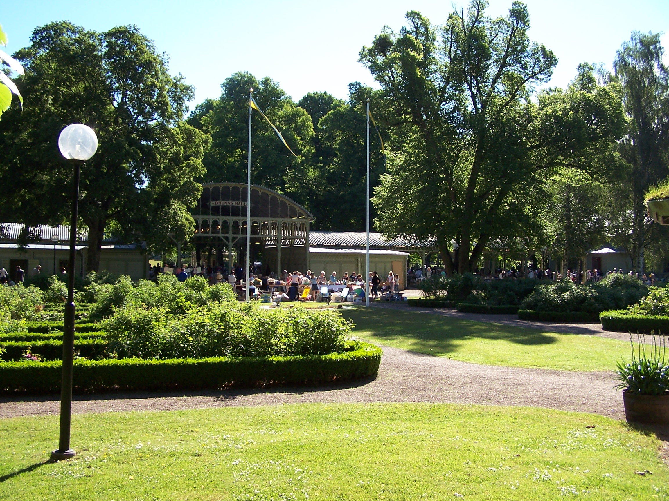 Brunnshallarna, Ronneby Brunnspark